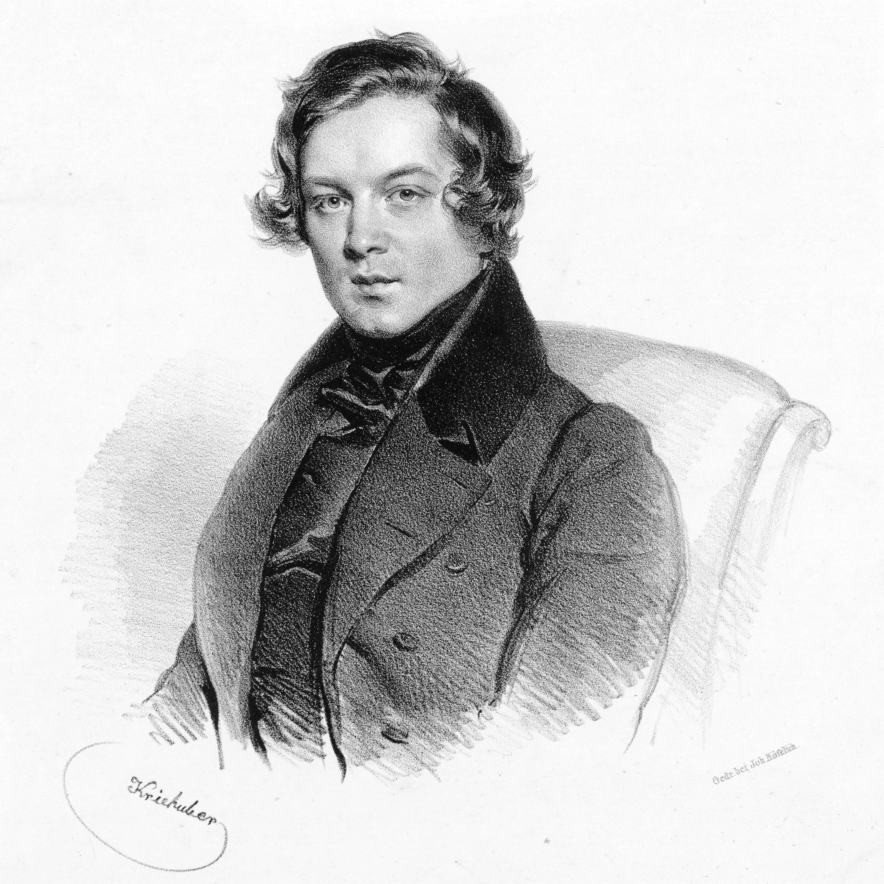 Depicted person: Robert Schumann